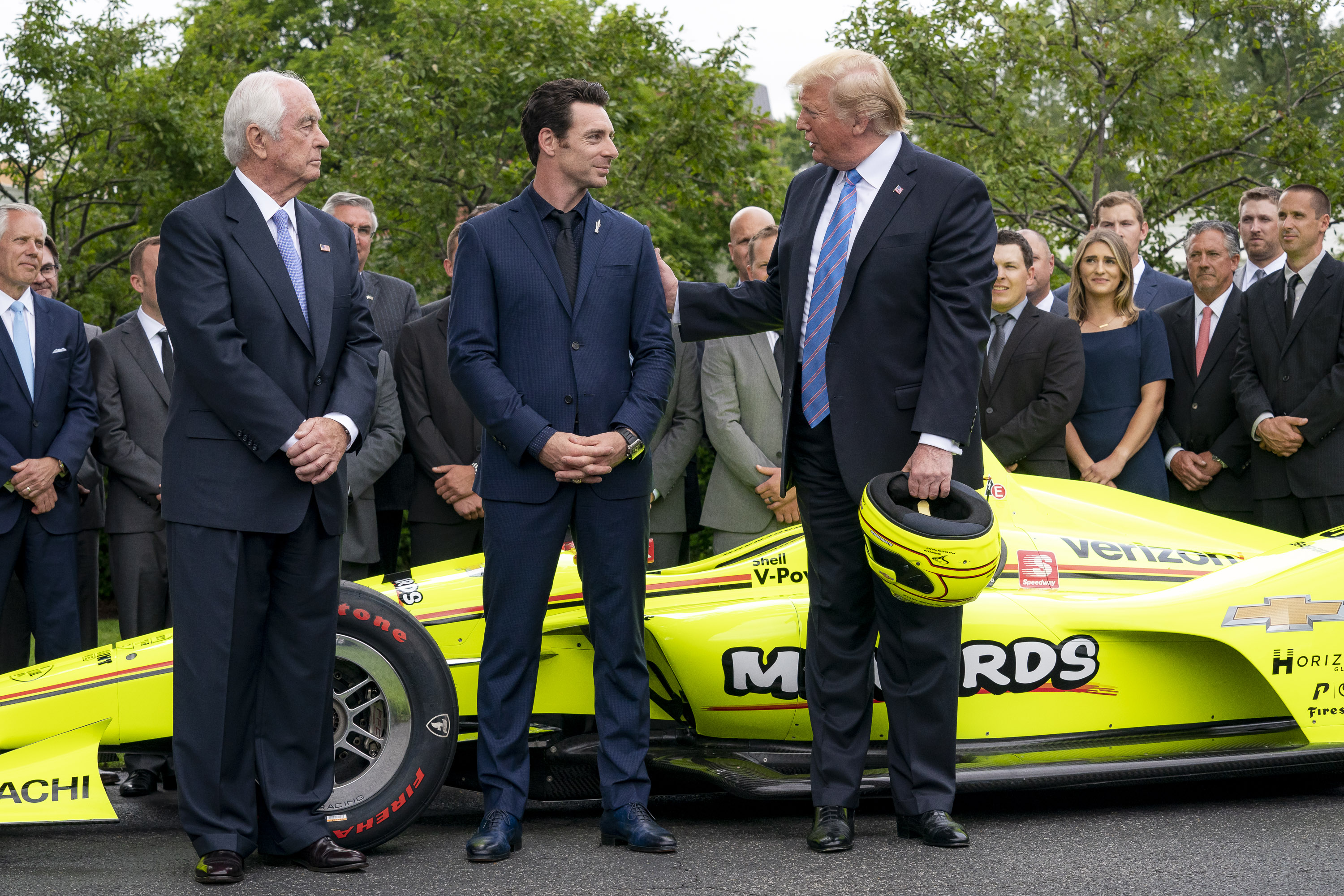 President Donald J. Trump is presented a racing helmet by race car driver Simon Pagenaud and Team Penske owner Roger Penske, left, as the 103rd Indianapolis 500 Champion Team and their race car are honored Monday, June 10, 2019, at the White House. (Official White House Photo by Tia Dufour)